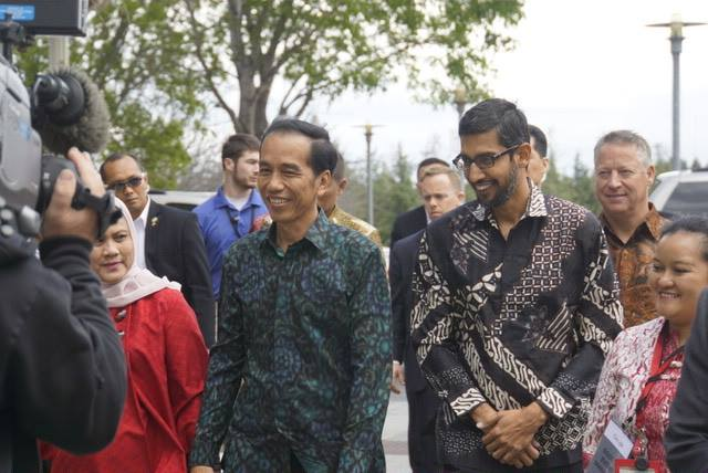 Joko Widodo and Sundar Pichai in Googleplex, California